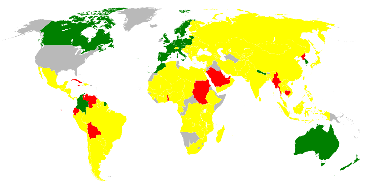 Map displaying the findings of the 2005 U.S. Department of State "Trafficking in Persons Report" [1] Green: Tier 1 (Full compliance with the minimum standards of the Trafficking Victims Protection Act of 2000 (TVPA)) Yellow: Tier 2 (Significant efforts to comply with TVPA) Red: Tier 3 (No efforts to comply with TVPA) Grey: No data